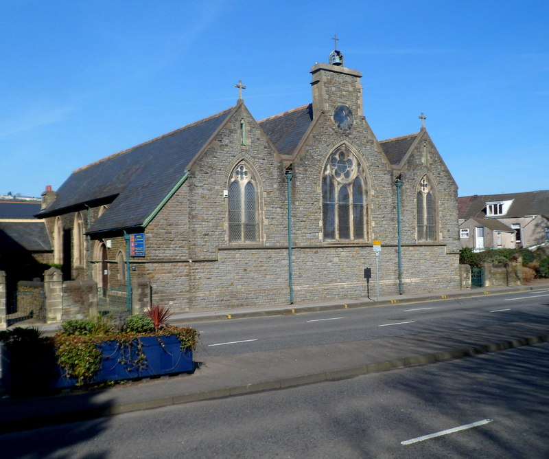 Christ Church Swansea. Church in Wales church viewed across Oystermouth Road. The foundation stone was laid on June 28th 1871. Because of the shape of the restricted site, the church is unusual in having its altar on the north side, instead of the customary east side. The original bell turret was dismantled long ago because its weight made the walls bulge. The single bell seen here was erected in 1932. It is rung before every main service to call people to worship.